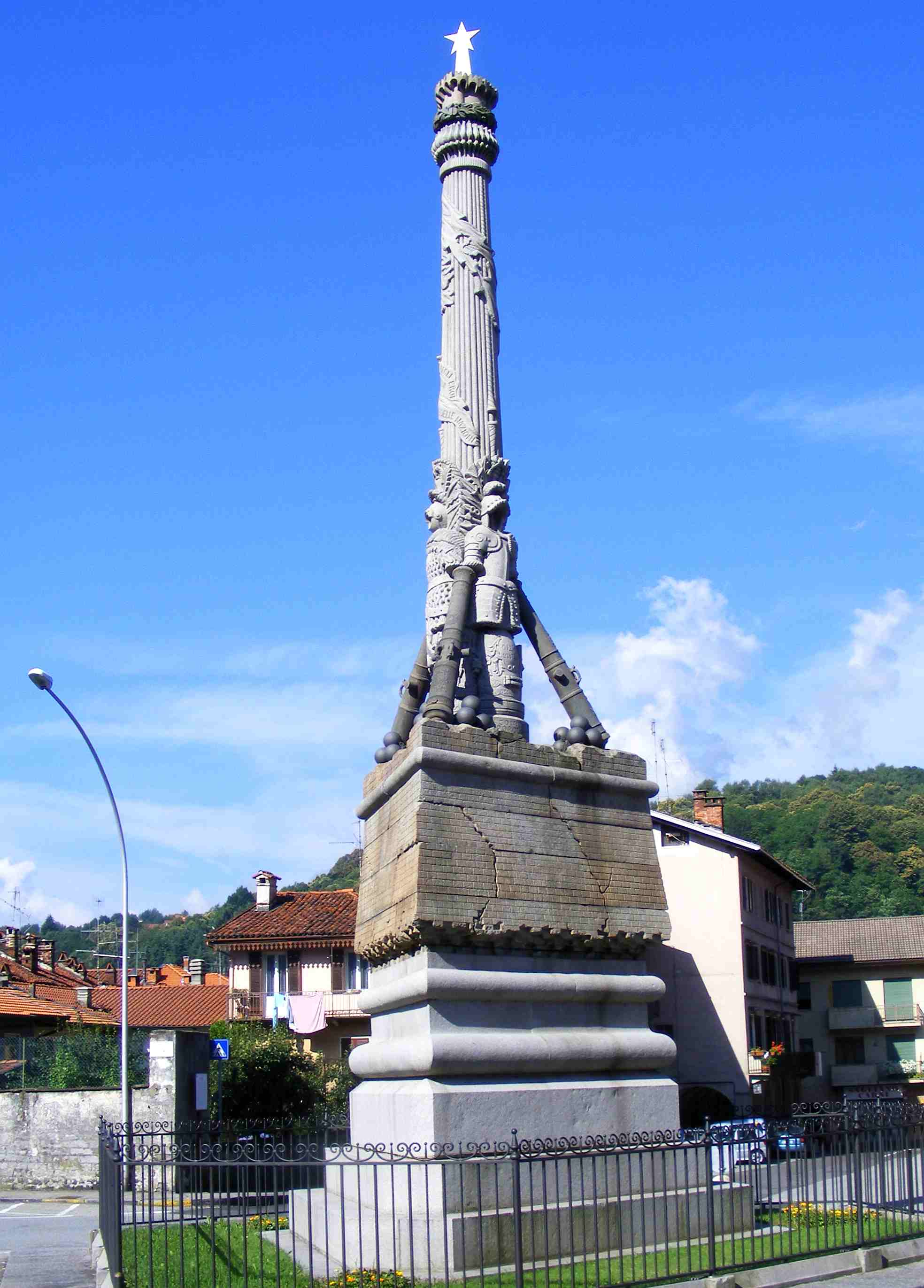 Sagliano (BI, Italy): monument to Pietro Micca of Giuseppe Maffei (1821-1901)